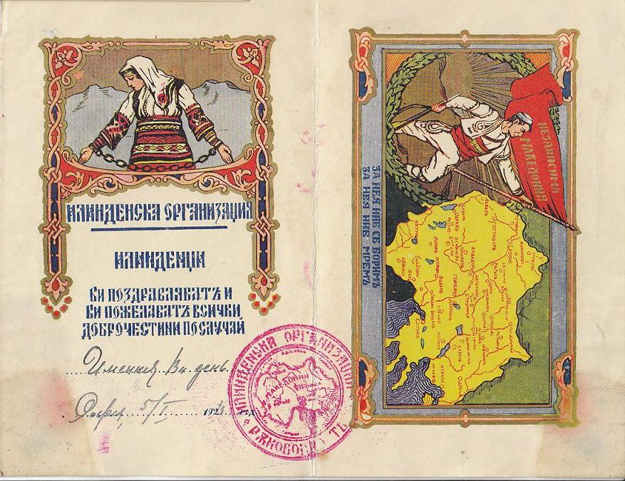 First and last pages of Ilinden Organisation's member card